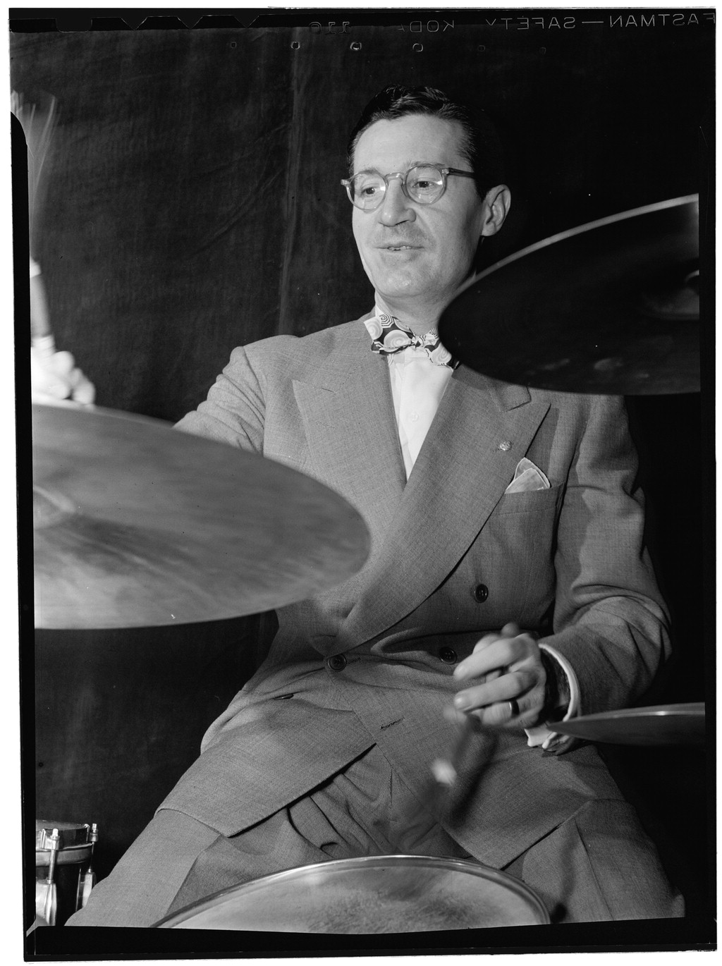 Ray McKinley, Hotel Commodore, New York, N.Y., ca. April 1946 (Photograph by William P. Gottlieb)